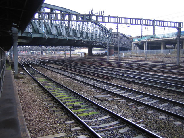 Paddington: Westbourne Bridge Westbourne Bridge is a skewed girder bridge crossing the main railway tracks into and out of Paddington Station. The faint green sheen on the tracks to the left indicates that life can even grow on smooth concrete railway sleepers.